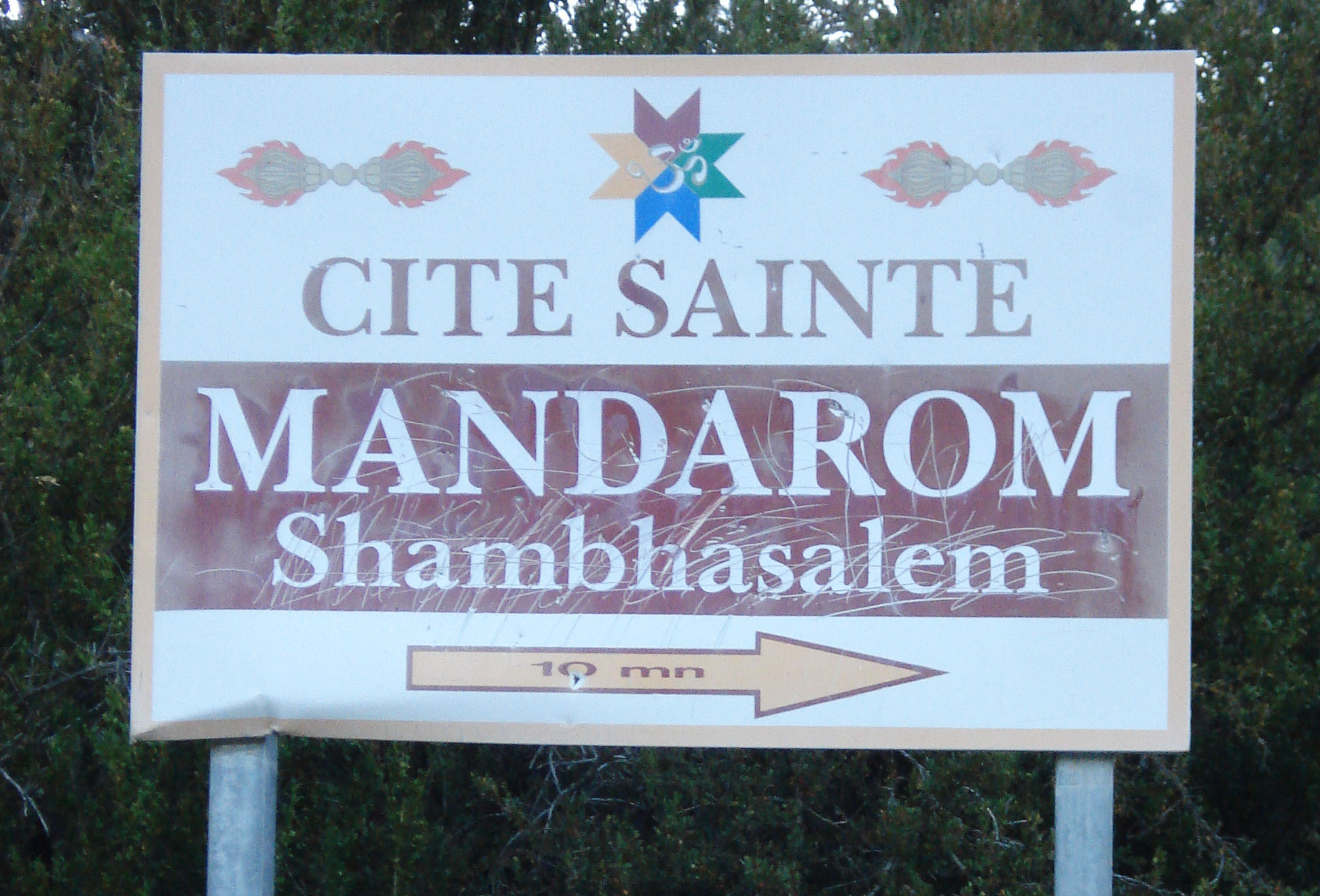 Signpost on the road do Mandarom